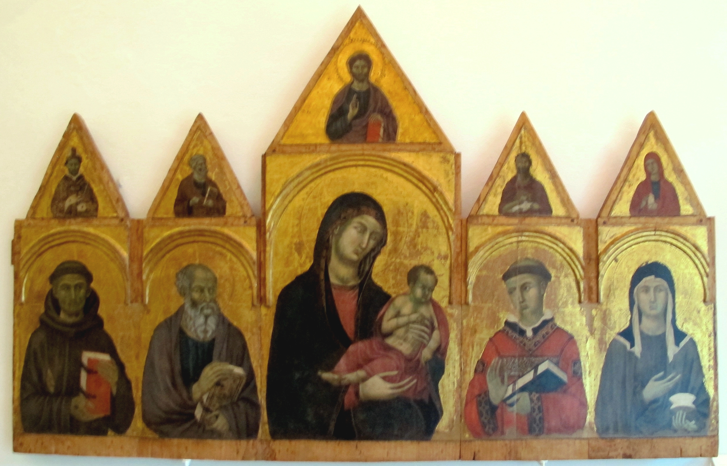 Painting in the National Pinacotheque, Siena